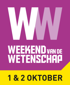 Logo weekend-van-de-wetenschap